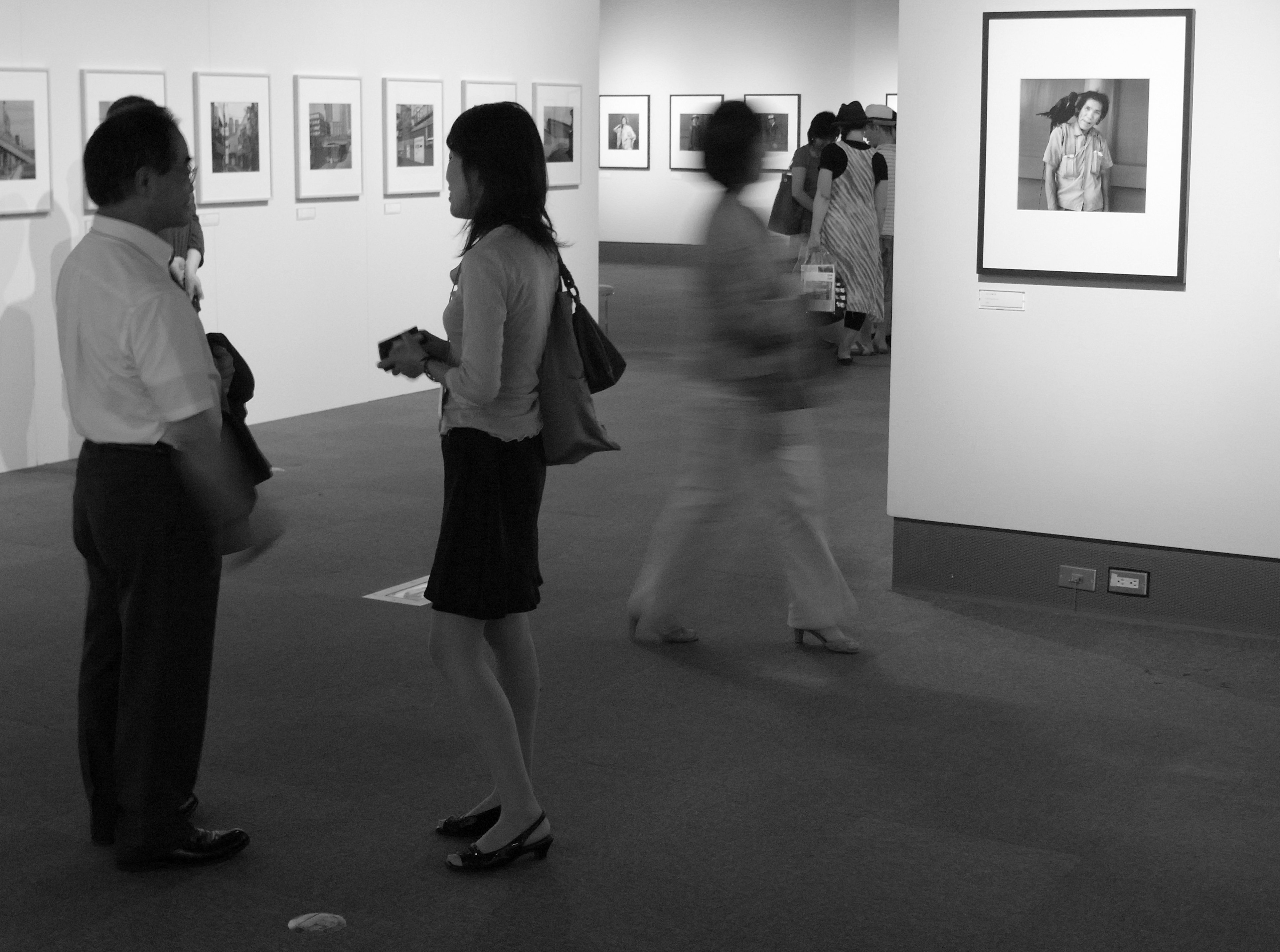 Press preview of the exhibition "Tokyo Portraits" (東京ポートレイト) by Hiroh Kikai (鬼海弘雄) at the Tokyo Metropolitan Museum of Photography (東京都写真美術館), 12 August 2011